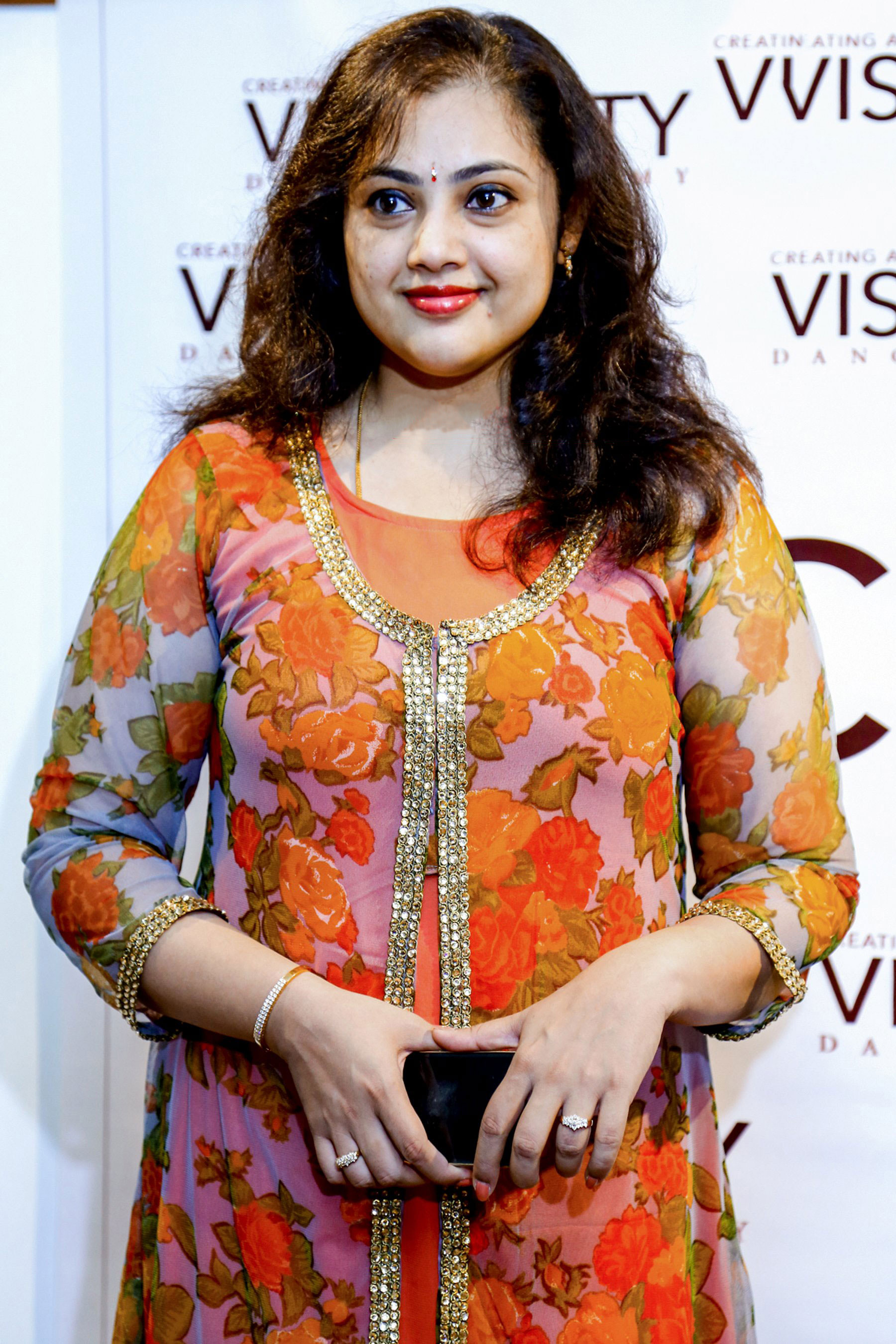 Meena at Viscosity Dance Academy Launch